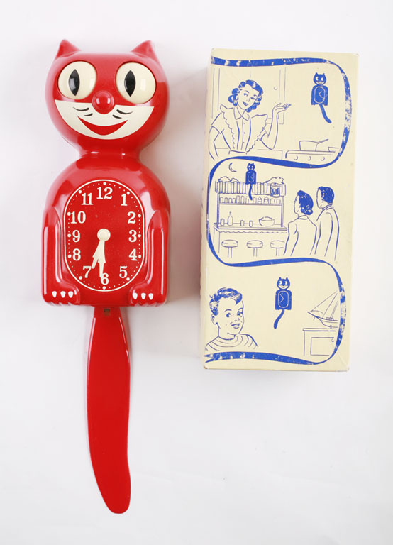 A Kit Cat Klock wall clock and box in the permanent collection of The Children’s Museum of Indianapolis.